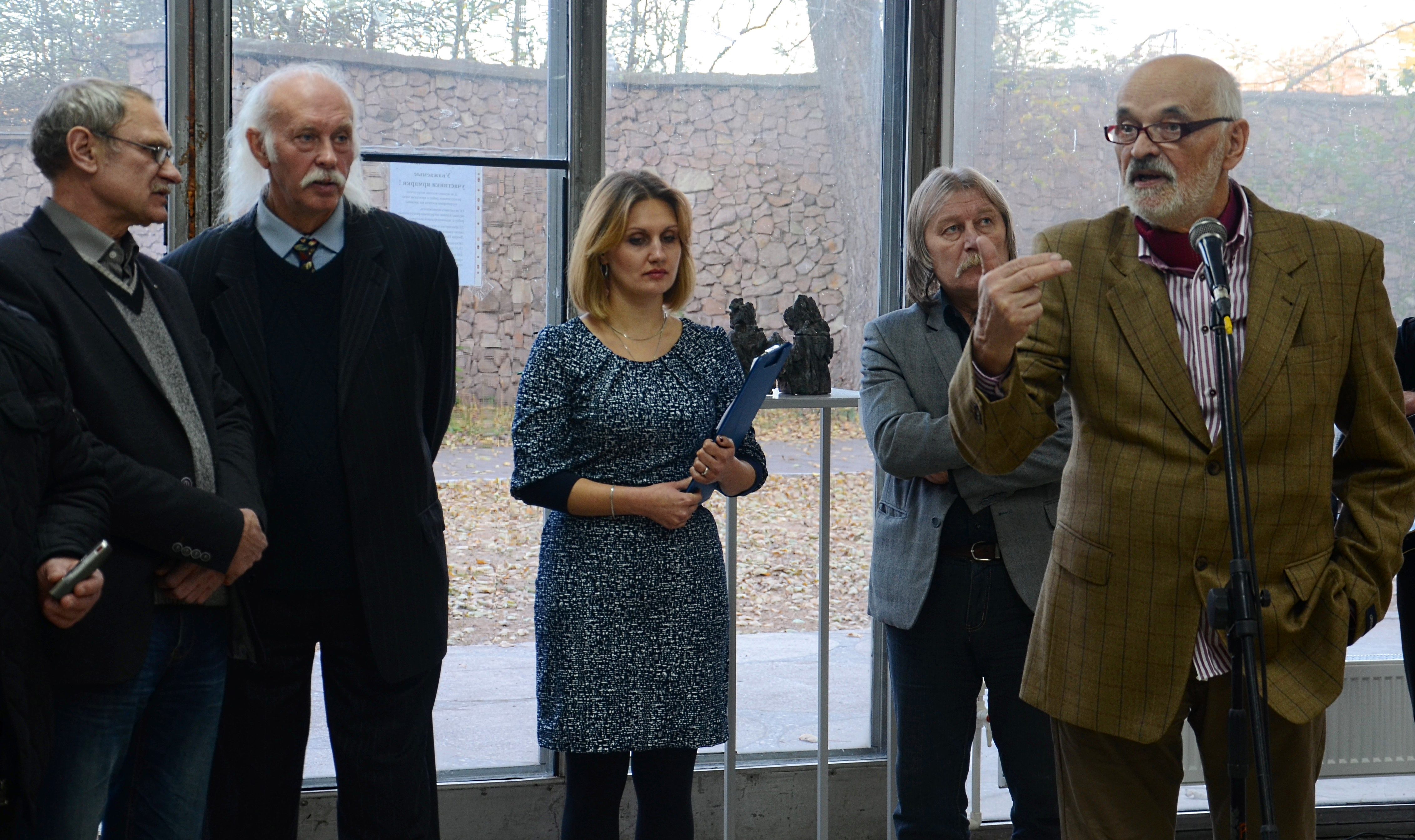 Оpening of an exhibition "Art Orsha. Rubon" in the Palace of Аrts, Minsk, on October 23, 2014.